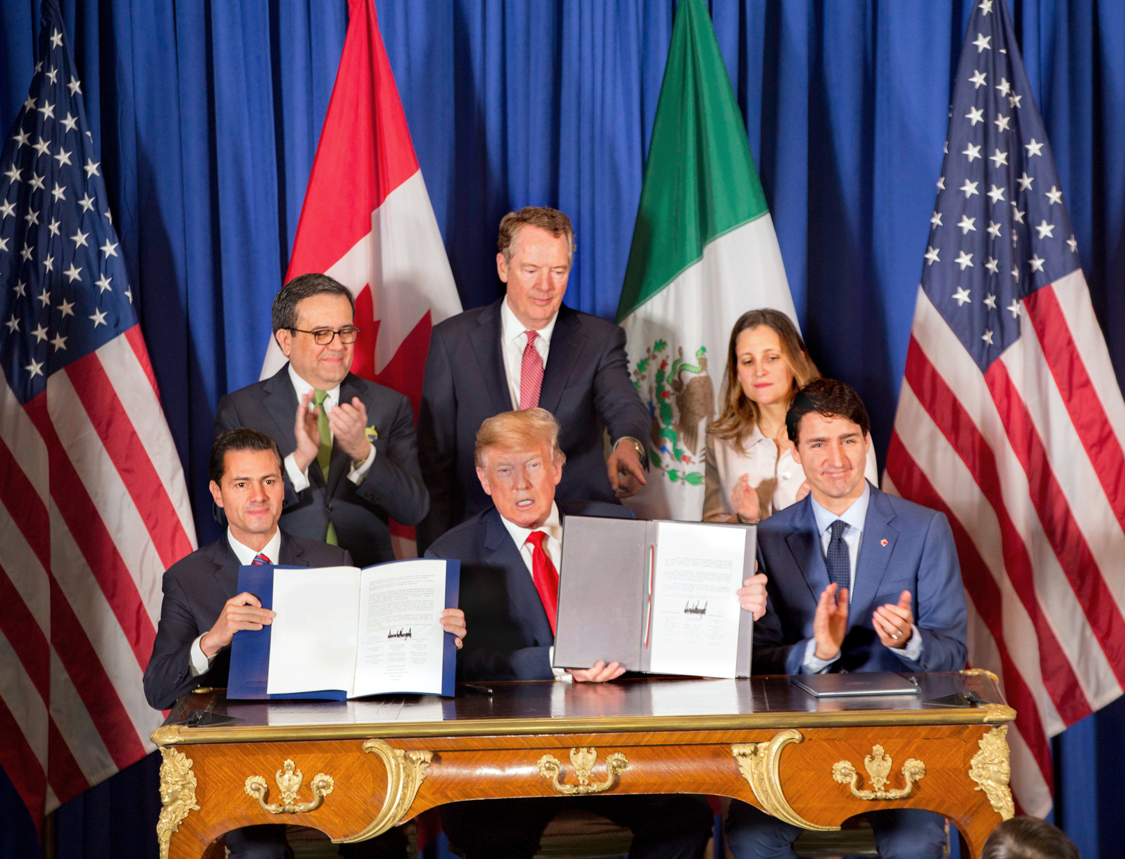 President Enrique Peña Nieto participated in the G20 Leaders Summit, which took place in Buenos Aires, Argentina, during which he signed the T-MEC in the company of the President of the United States, Donald Trump, and the Prime Minister of Canada, Justin Trudeau.